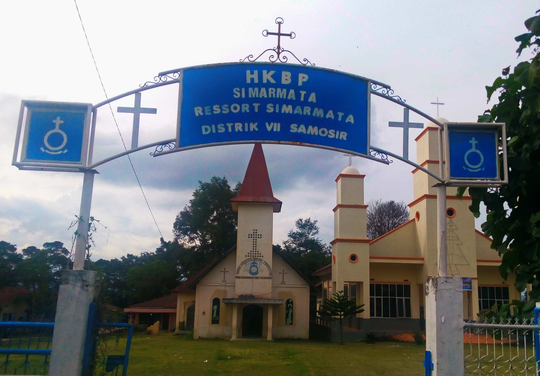 HKBP Simarmata, Church in Simarmata, Simanindo, Samosir